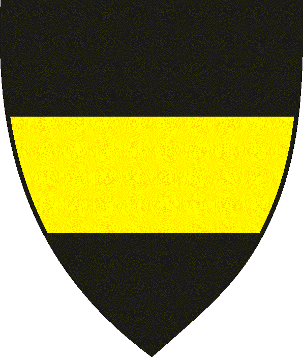 coat of arms of (arch)diocese of Prague ("Sable, a fess or")